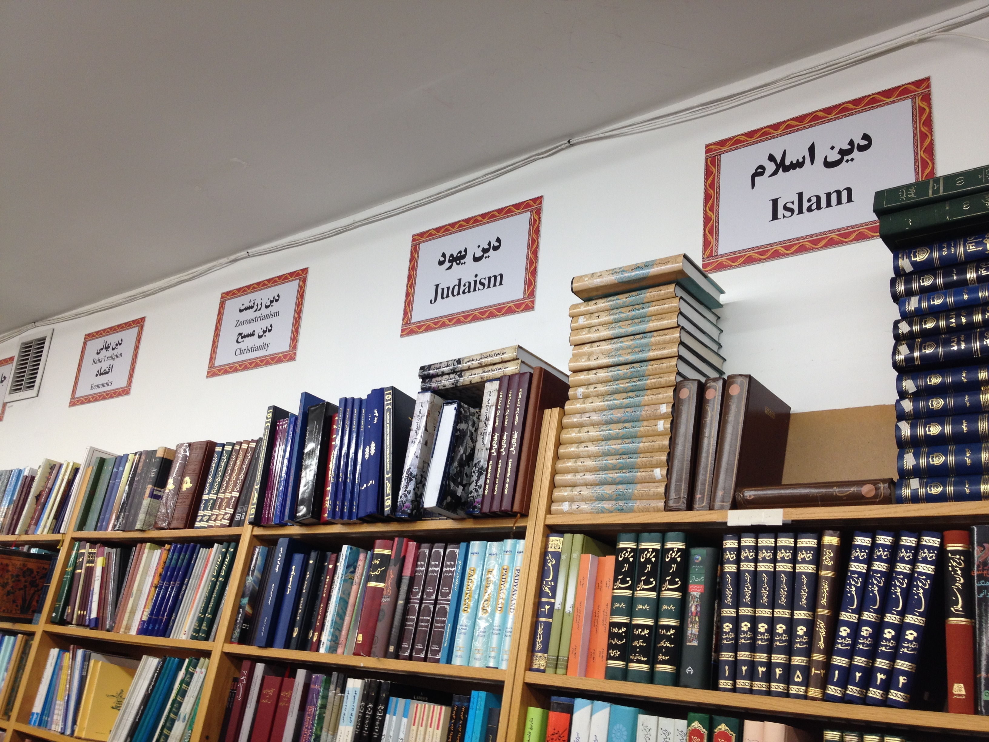 Inside Sherkate Ketab: the religious books section.